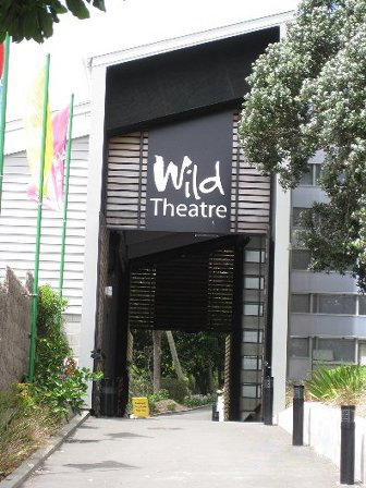 Wellington Zoo's Wild Theatre event space.